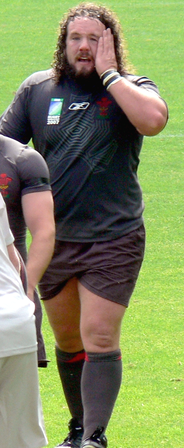 modified verison of flickr image (border removed)